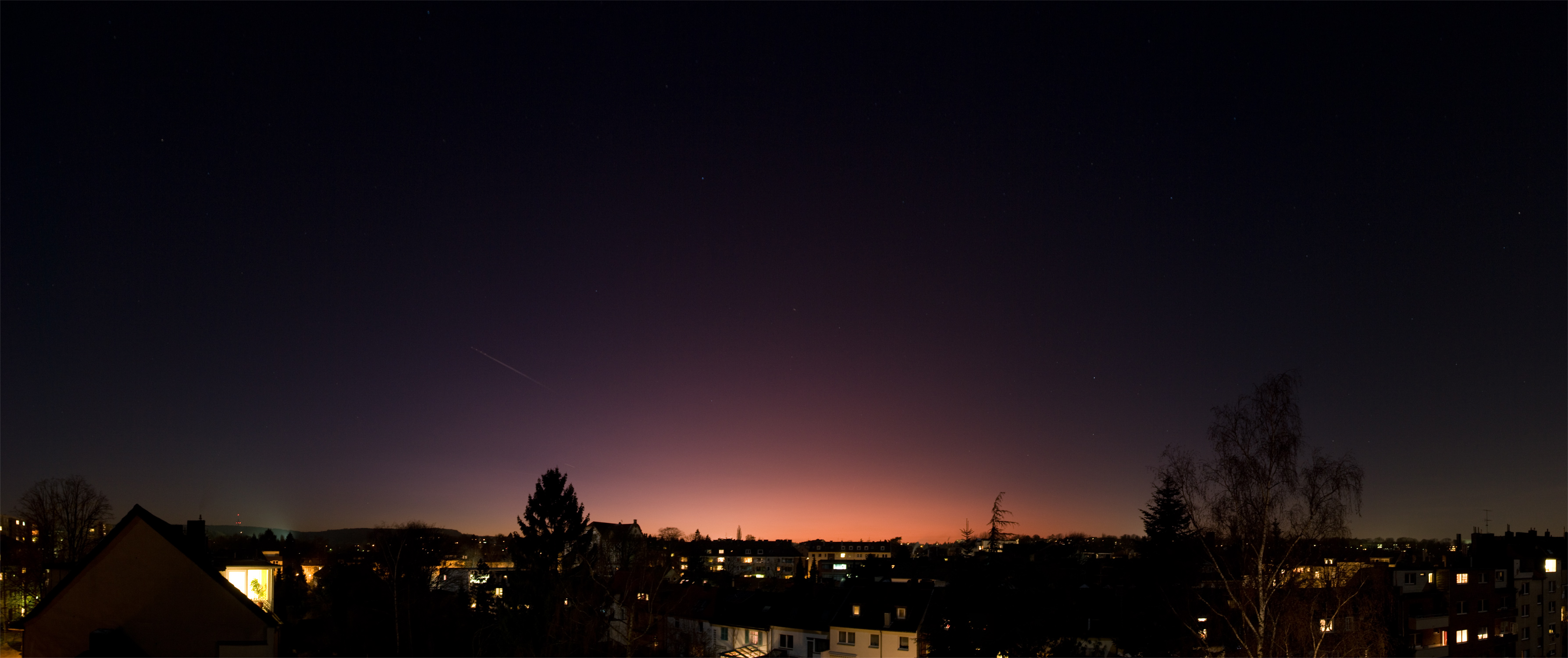 Purple light at western horizon of Aachen, Germany. The picture was taken at a time (02-18-2008, 19:12 CET), when sun was about 13° below horizon and sunset was about an hour ago.